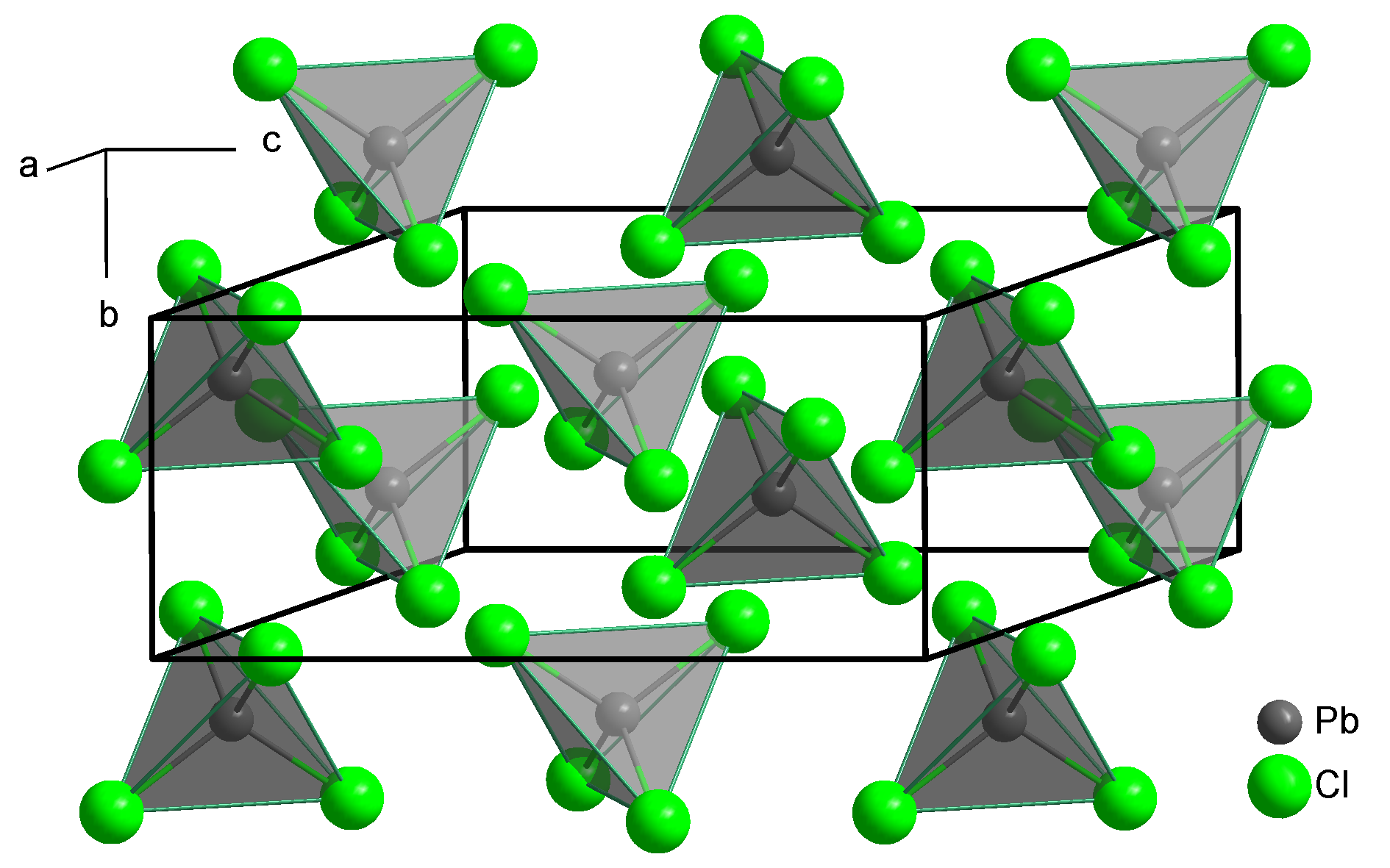 Crystal structure of lead(IV) chloride, PbCl4, at 150 K (Crystallographic data from Acta Cryst. E 58, 2002, i79-i81).